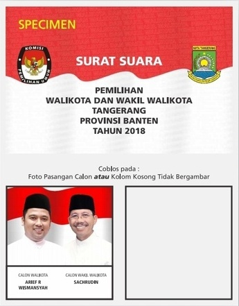 A sample ballot sheet for the 2018 Tangerang mayoral elections. The election had only a single contestant and hence the right column indicates a “None of the above” option.